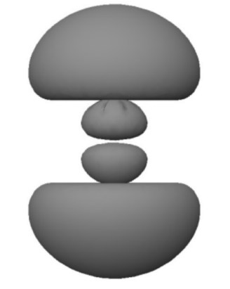 a surface of constant probability for 3p0